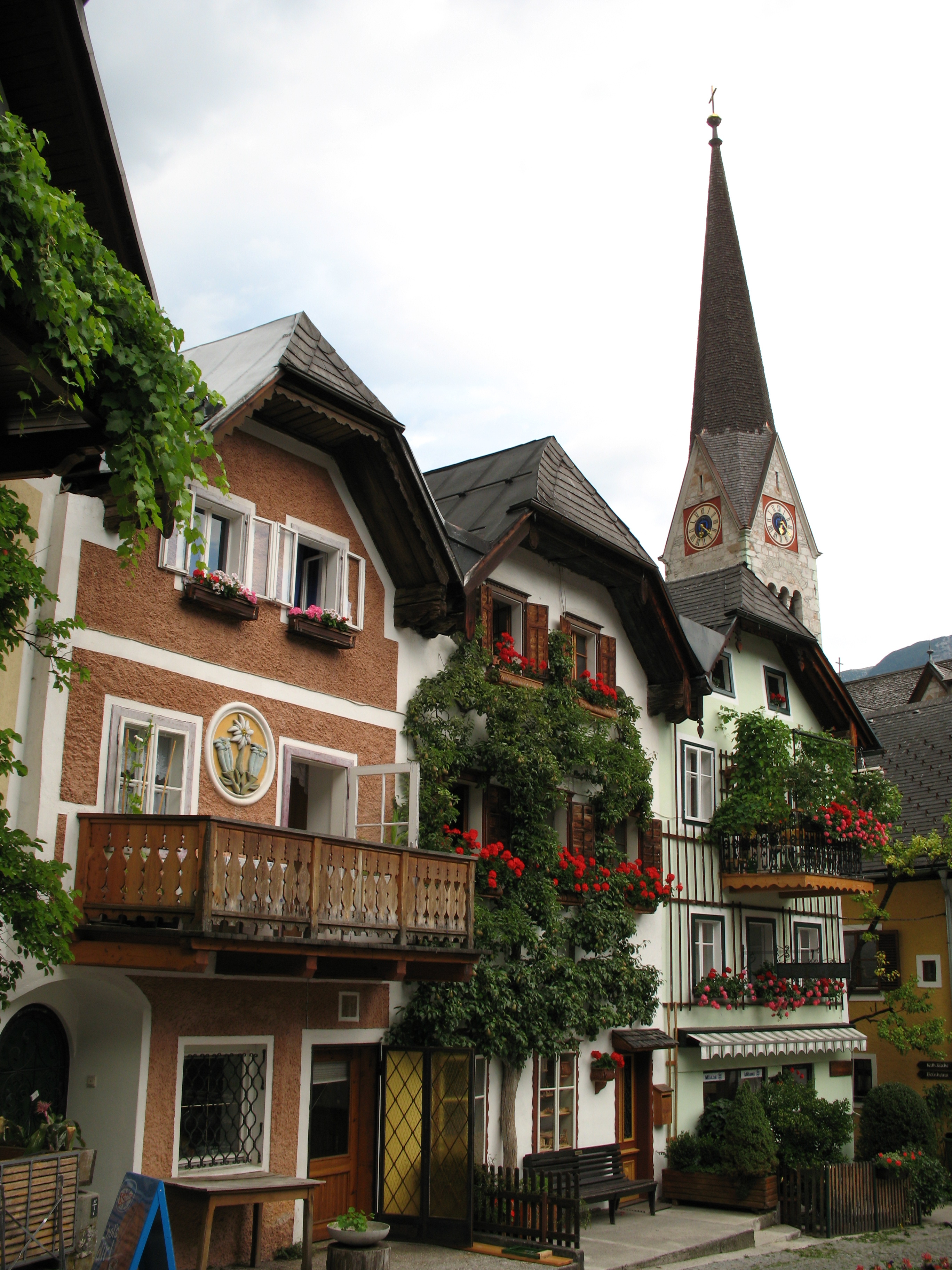 Badergraben, Hallstatt, Austria